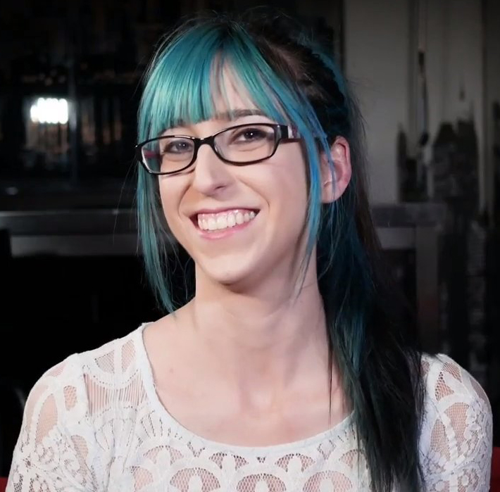 Erika Harlacher talking about her role of Kurapika in Hunter x Hunter